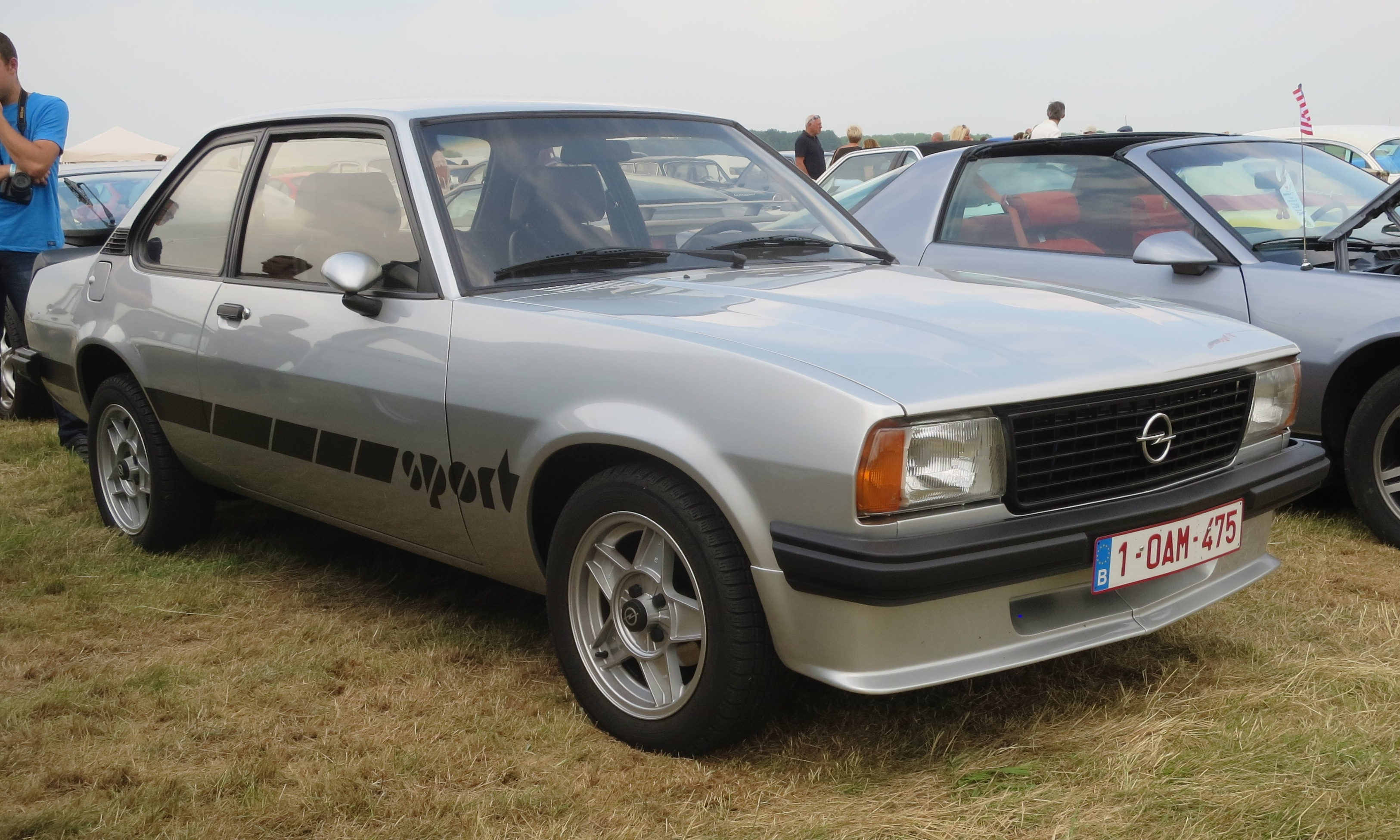 Opel Ascona B Sport at Schaffen-Diest 2016